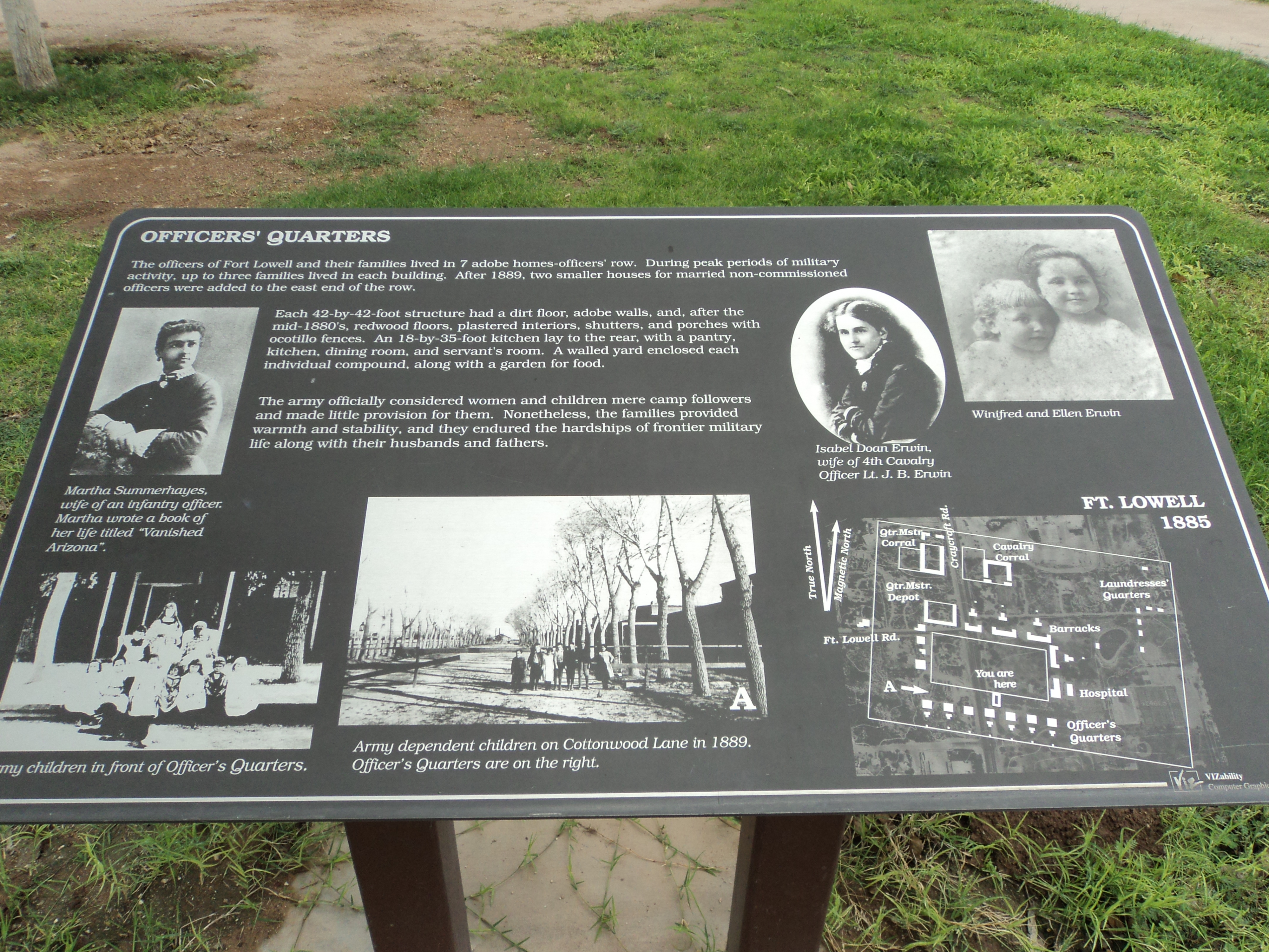 Information board on Fort Lowell's officers' quarters.